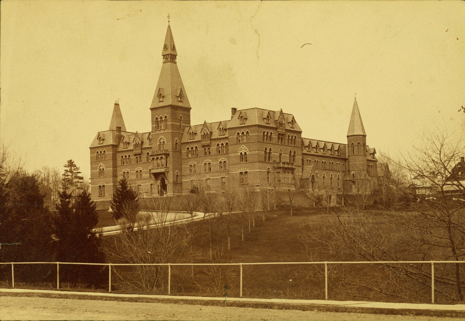 Collection: A. D. White Architectural Photographs, Cornell University Library Accession Number: 15/5/3090.01597 Title: Sage College, Cornell University Campus Photographer: Howes Architect: Charles Babcock (1829-1913) Photograph date: ca. 1873-ca. 1895 Building Date: 1873 Location: North and Central America: United States; New York, Ithaca Materials: albumen print; cabinet card Image: 5 x 7.2441 in.; 12.7 x 18.4 cm Style: Gothic Revival Provenance: Transfer from the College of Architecture, Art and Planning Persistent URI: There are no known U.S. copyright restrictions on this image. The digital file is owned by the Cornell University Library which is making it freely available with the request that, when possible, the Library be credited as its source. We had some help with the geocoding from